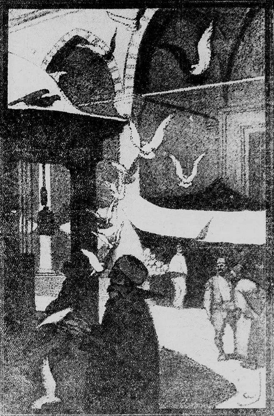 Drawing of worshipers and pigeons at the ablutions fountain of Beyazit Mosque, Istanbul, Ottoman Empire (modern Turkey). Drawing credited to Wilfred Jones, Asia.